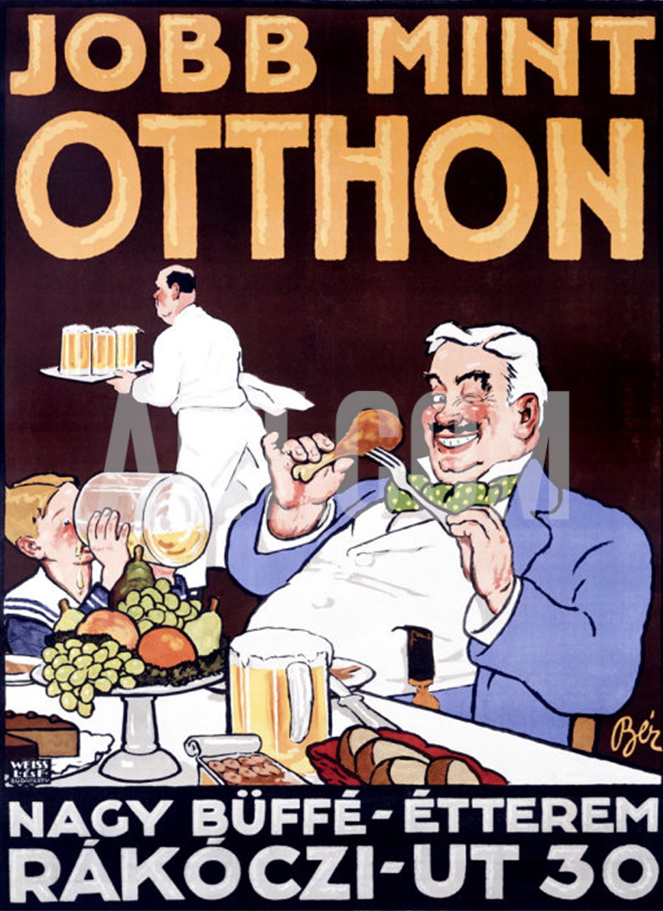 Advertising poster for a restaurant